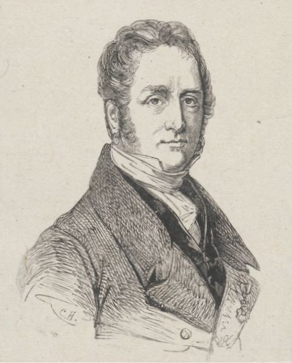 Portrait of Odevaere in Johannes Immerzeel´s ´De levens en werken der Hollandsche en Vlaamsche kunstschilders´, vol. 2.